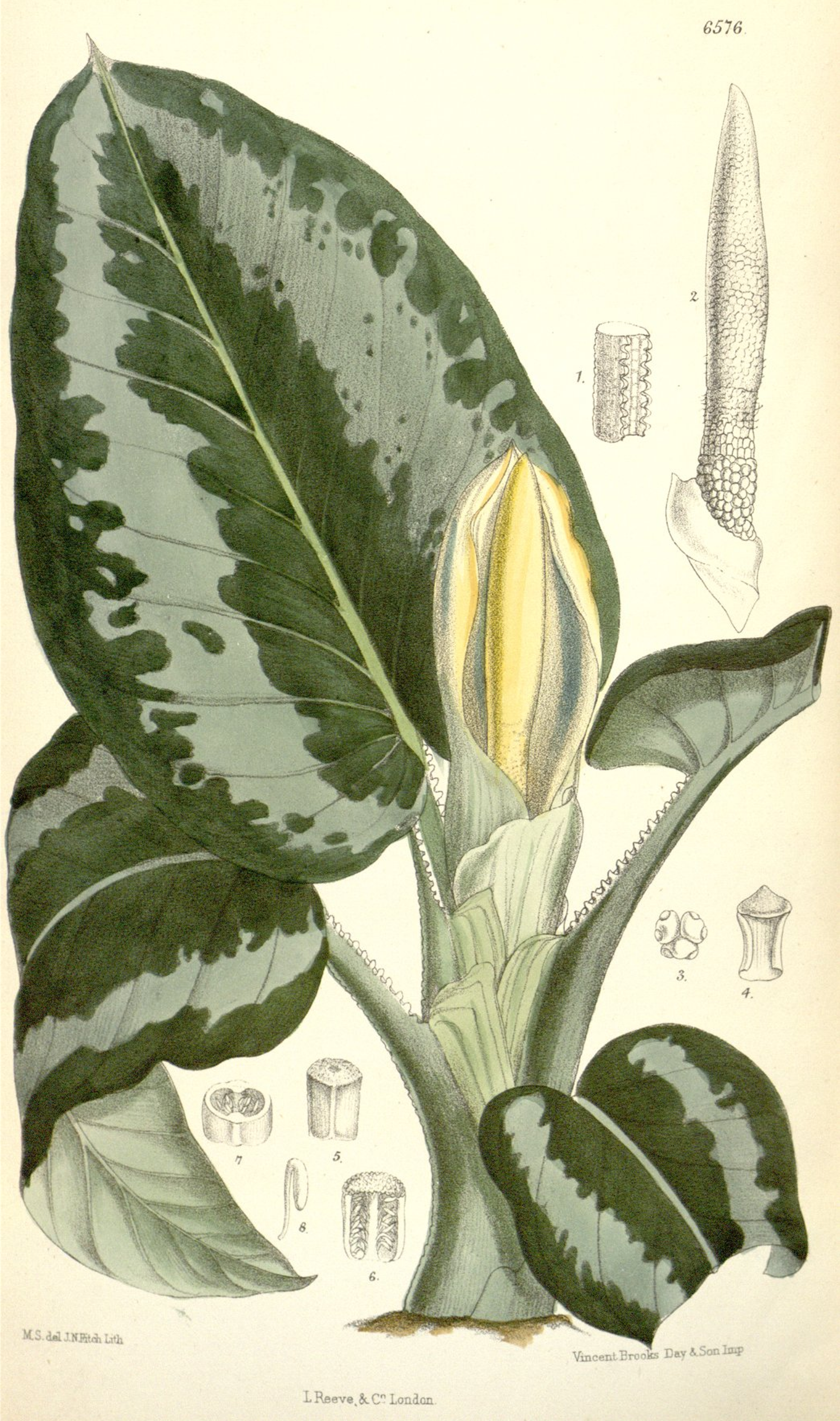 Schismatoglottis asperata drawing